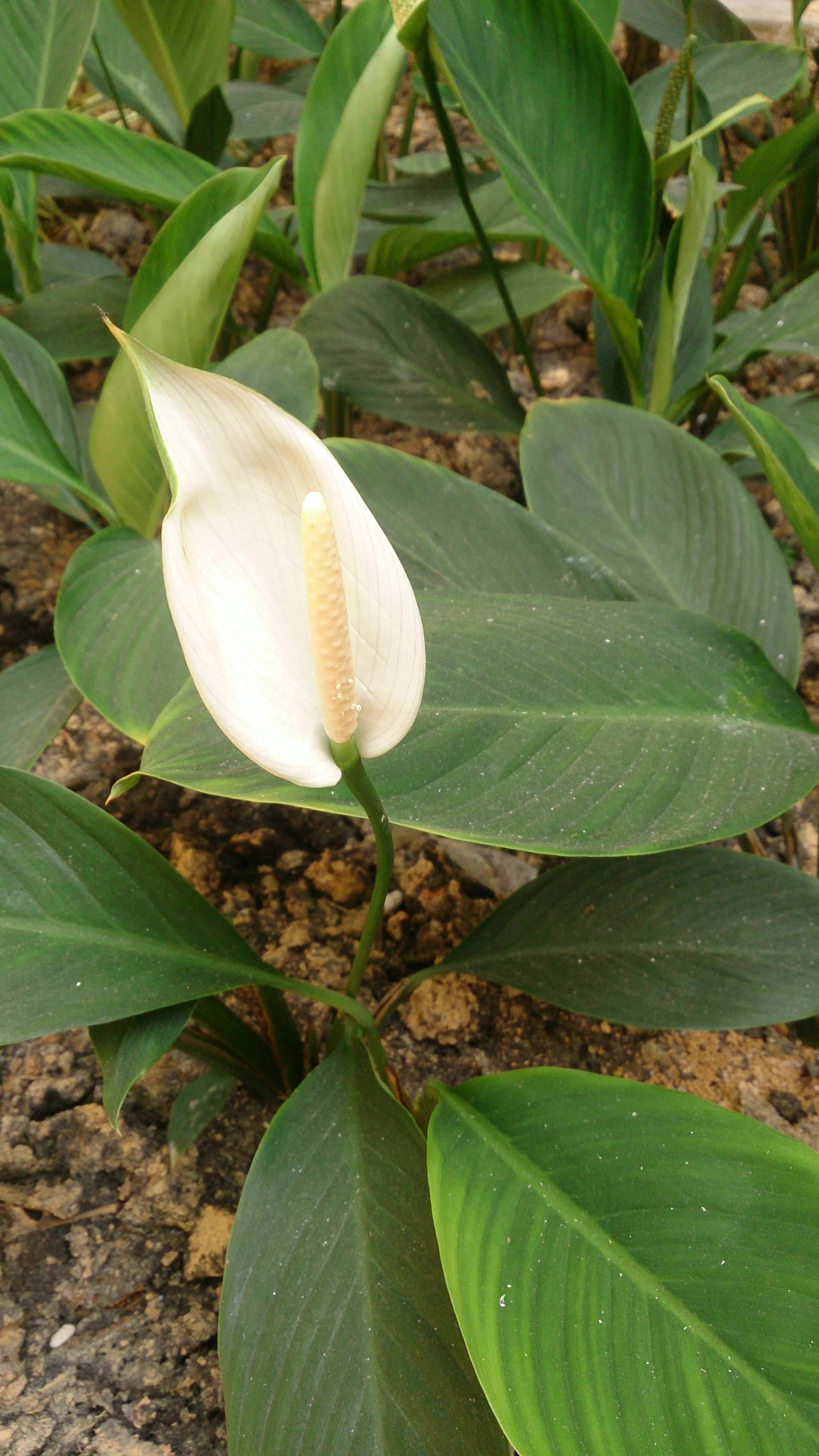 Spathiphyllum cannifolium. Common name: peace lily.